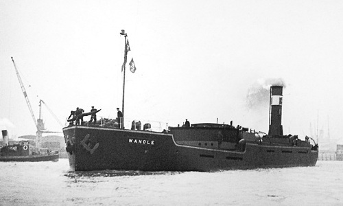 The SS Wandle, a British coastal collier owned and operated by the proprietors of Wandsworth gas works, arriving on her maiden voyage at the Pool of London in London, England, UK.